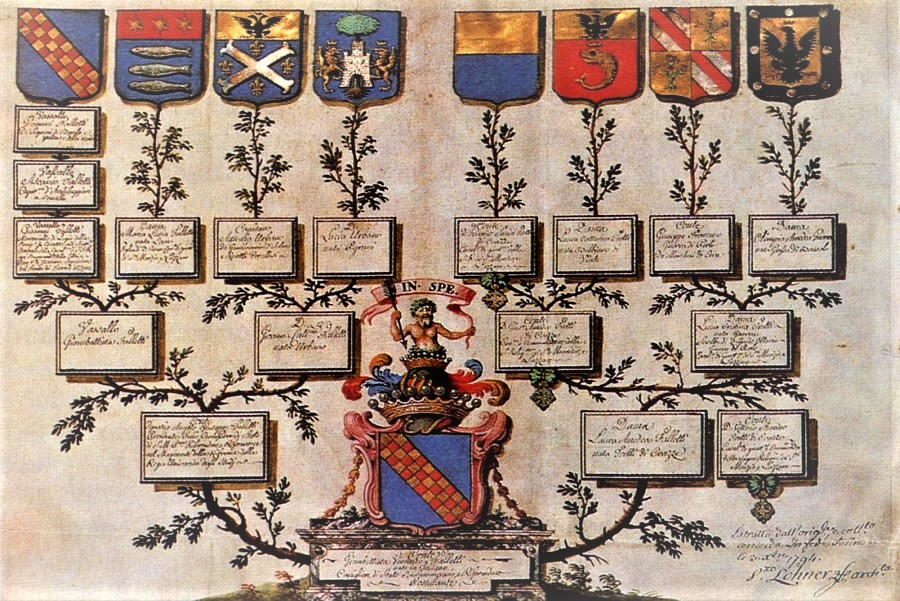 Falletti family tree used to join the Order of Malta